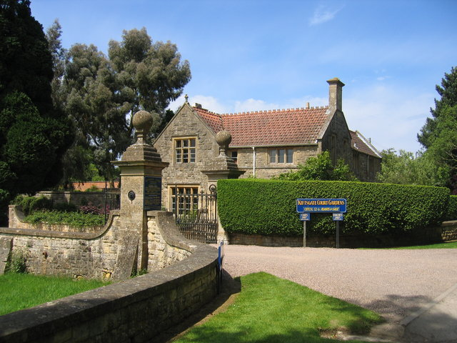 Kiftsgate Court. The gateway and lodge at the entrance to the court.